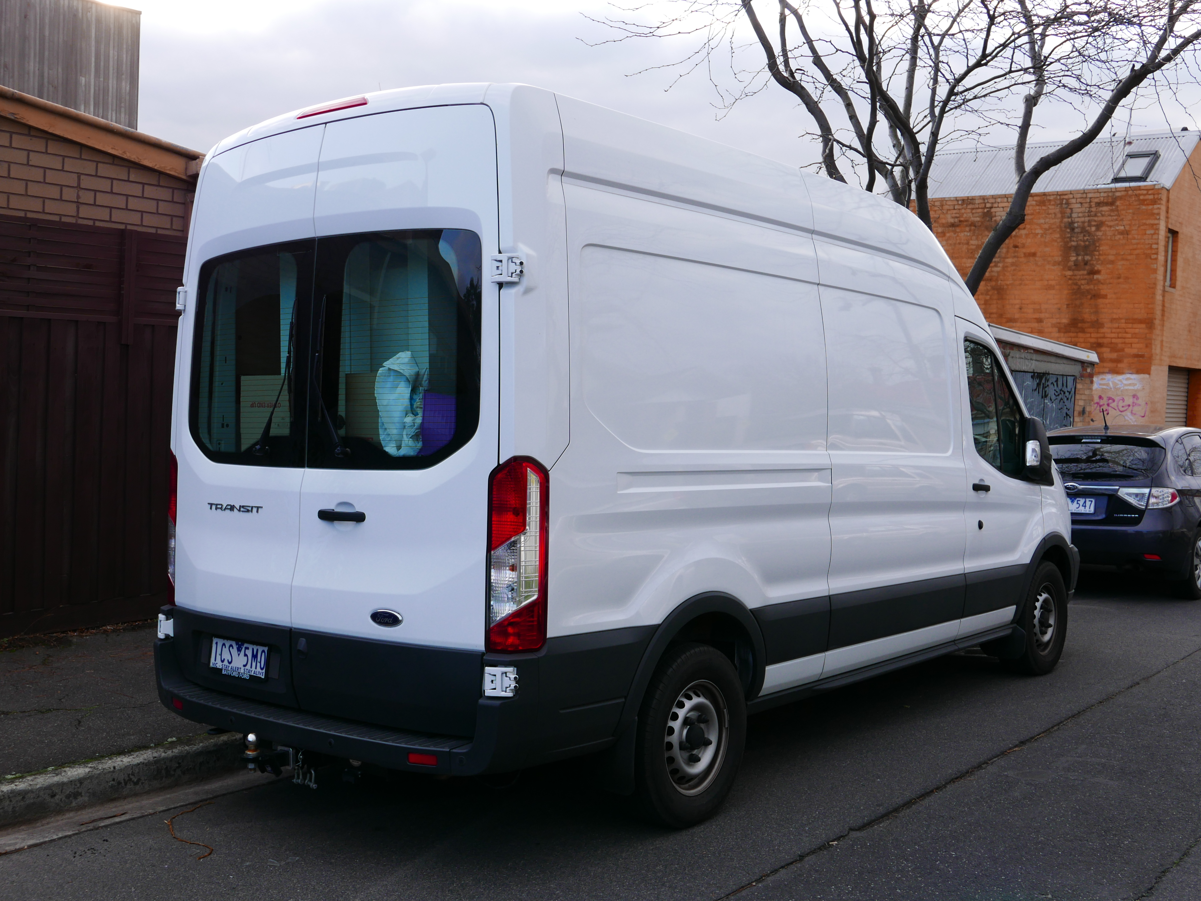 2014 Ford Transit (VO) 350E van. Photographed in Northcote, Victoria, Australia. Vehicle registration enquiry resultsJurisdictionVictoriaRegistration1CS5MOChassis codeWF0XXXTTGXES81809Engine codeCVRCES81809Compliance date2014-05Year of manufacture2014